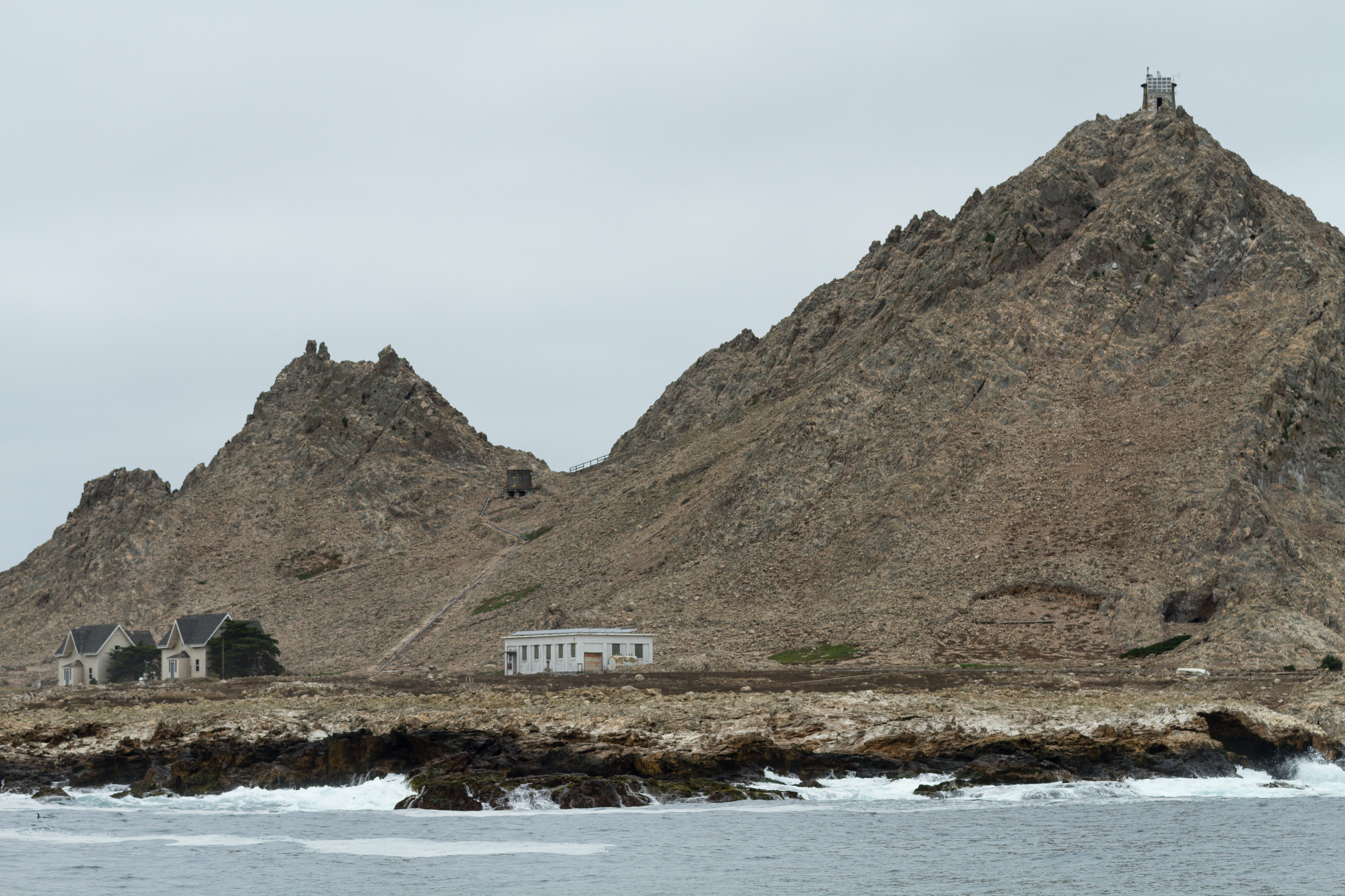 South Farallon Island in September 2014